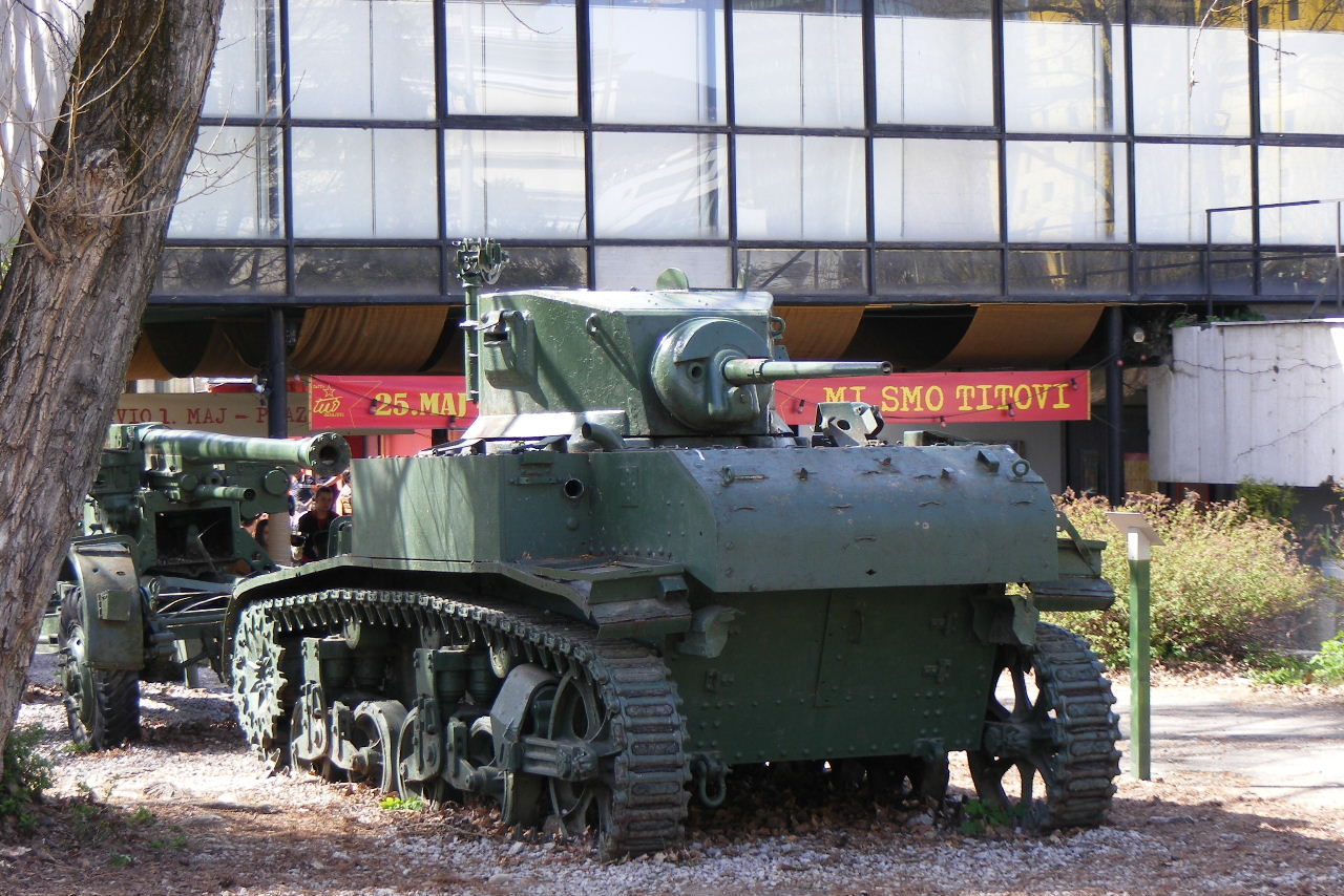 An M3A1 Stuart light tank and a Škoda 7.5 cm kanon PL vz. 37 anti-aircraft gun at the Historical Museum of Bosnia and Herzegovina in Sarajevo, Bosnia and Herzegovina. (Note the tank has its gun pointed rearward.)